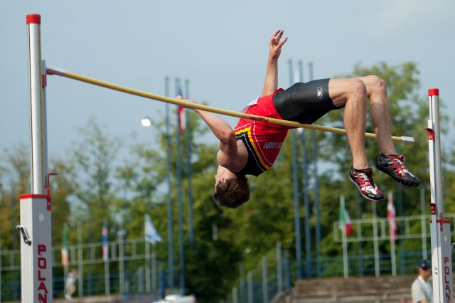 Thomas Van Der Plaetsen during the decathlon at the 2011 European Championships U23, Ostrava